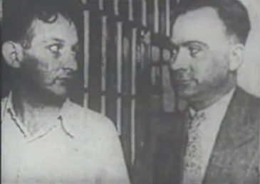 Screenshot from , edited with Gimp. Showing Machine Gun Kelly (right).